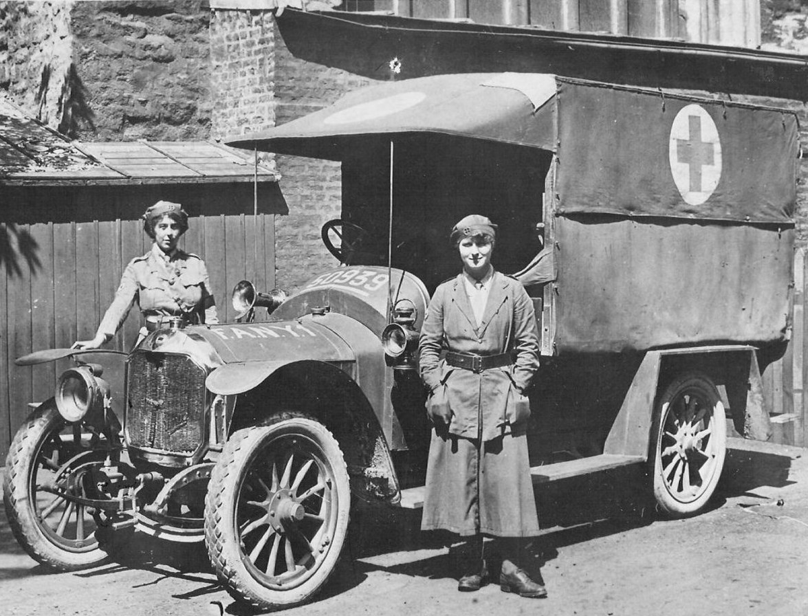 Grace McDougall FANY nurse during WW1 and "Bob Bailey" in 1915. A Ford ambulance at Calais nicknamed Flossie.